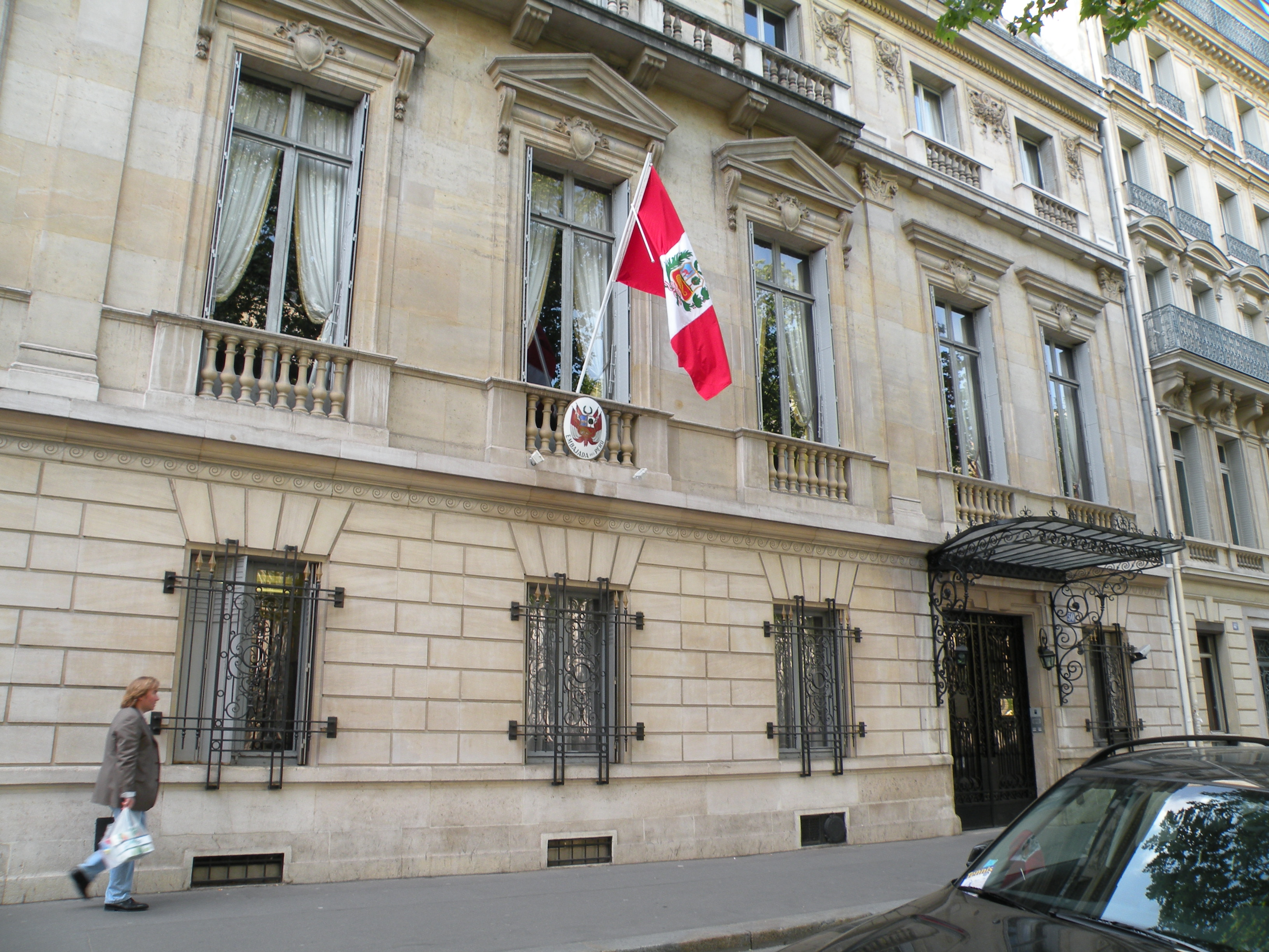 Peruvian embassy in France, Paris